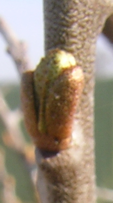 Hippophae rhamnoides, bud. Russia, Ivanovo region